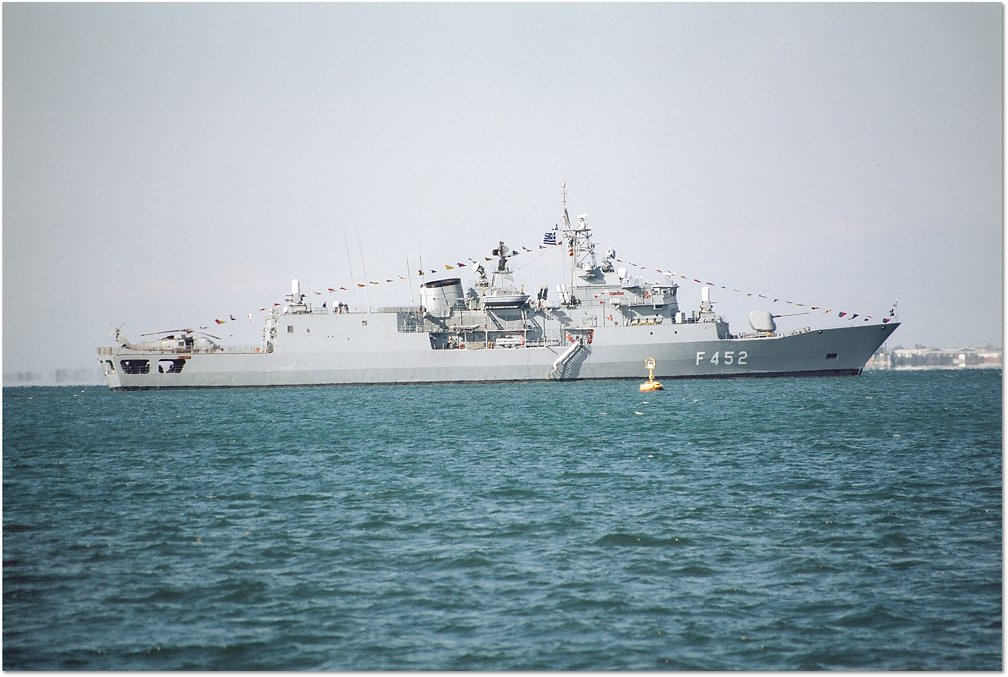 Picture of frigate HS Hydra at Piraeus port